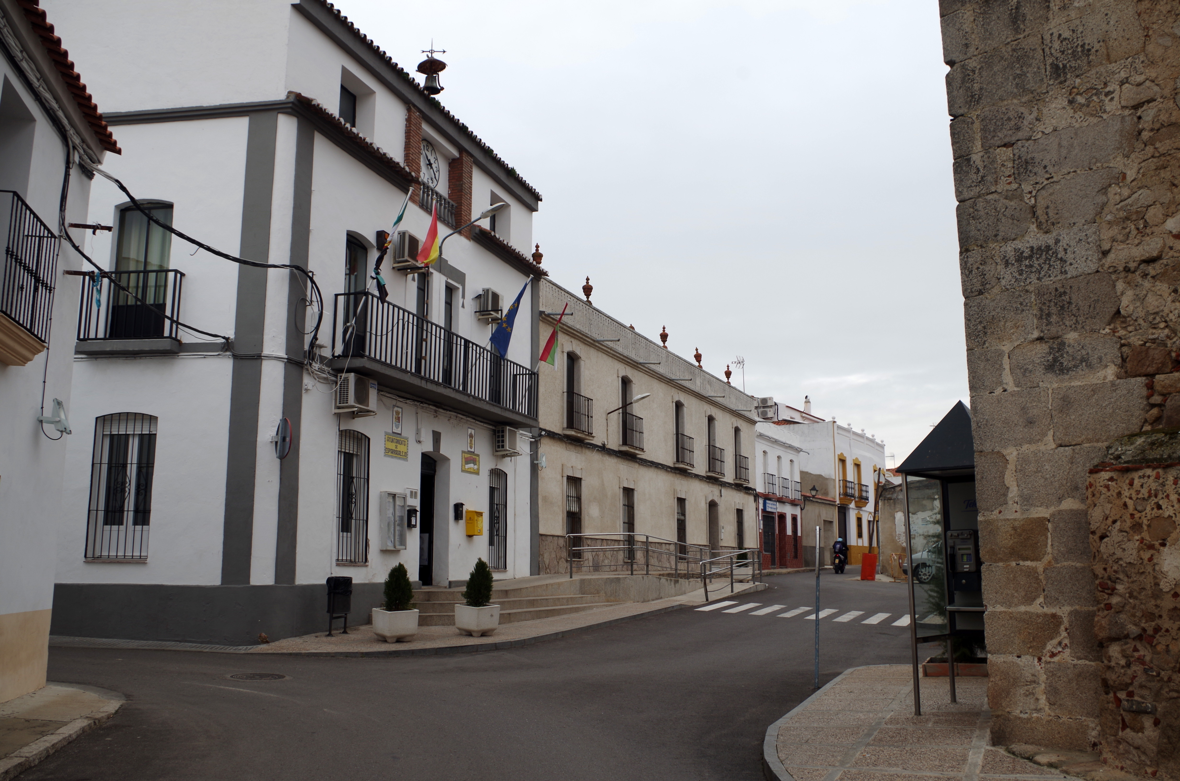 Town hall of Esparragalejo (Badajoz, Spain).